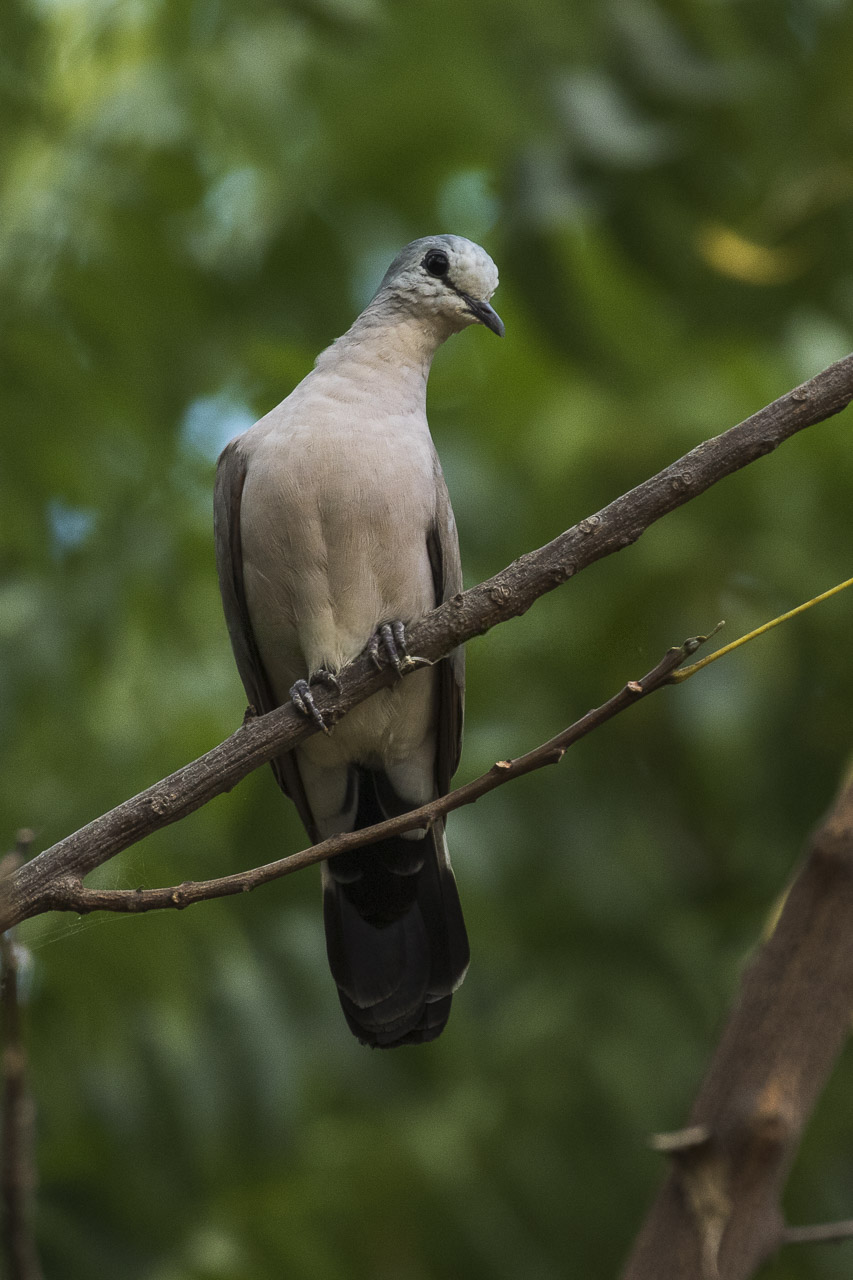 Black-billed Wood-Dove - Gambia 17_CD5A0750